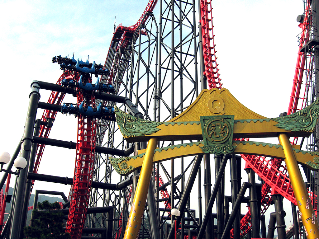 Torii and part of the track of the "eejanaika" roller coaster at Fuji-Q Highland amusement park in Yamanashi Prefecture, Japan. "Ee ja nai ka" roughly translates to "what the hell."